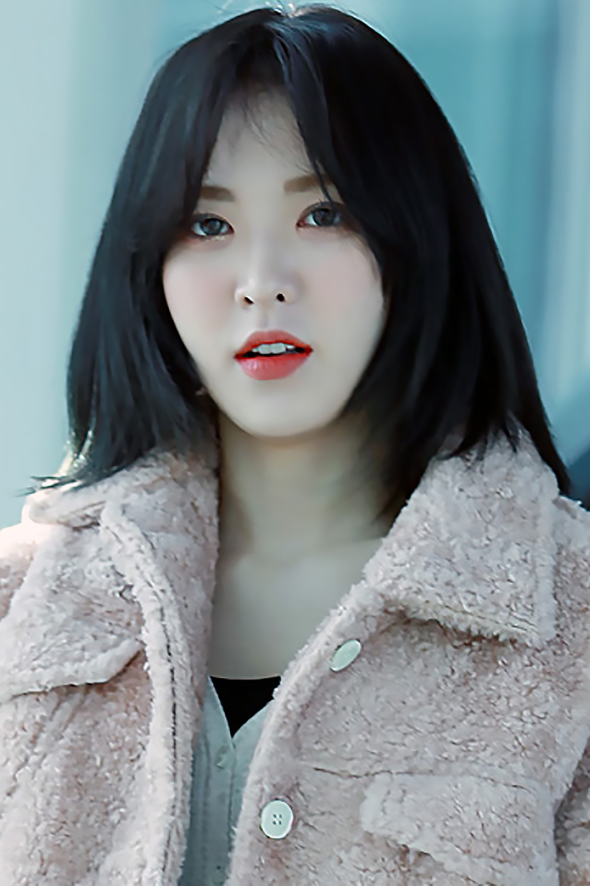 Wendy Son at Incheon Airport on January 5, 2019.